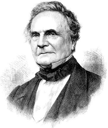 Obituary portrait of Charles Babbage (1791-1871) published in The Illustrated London News on 4 November 1871. The original caption was "The late Mr. Babbage." This portrait was derived from a photograph of Babbage taken at the Fourth International Statistical Congress which took place in London in July 1860.[1] Hook, Dinan (2002). Origins of cyberspace: a library on the history of computing, networking, and telecommunications. Norman Publishing. pp. 161, 165, ISBN 0930405854